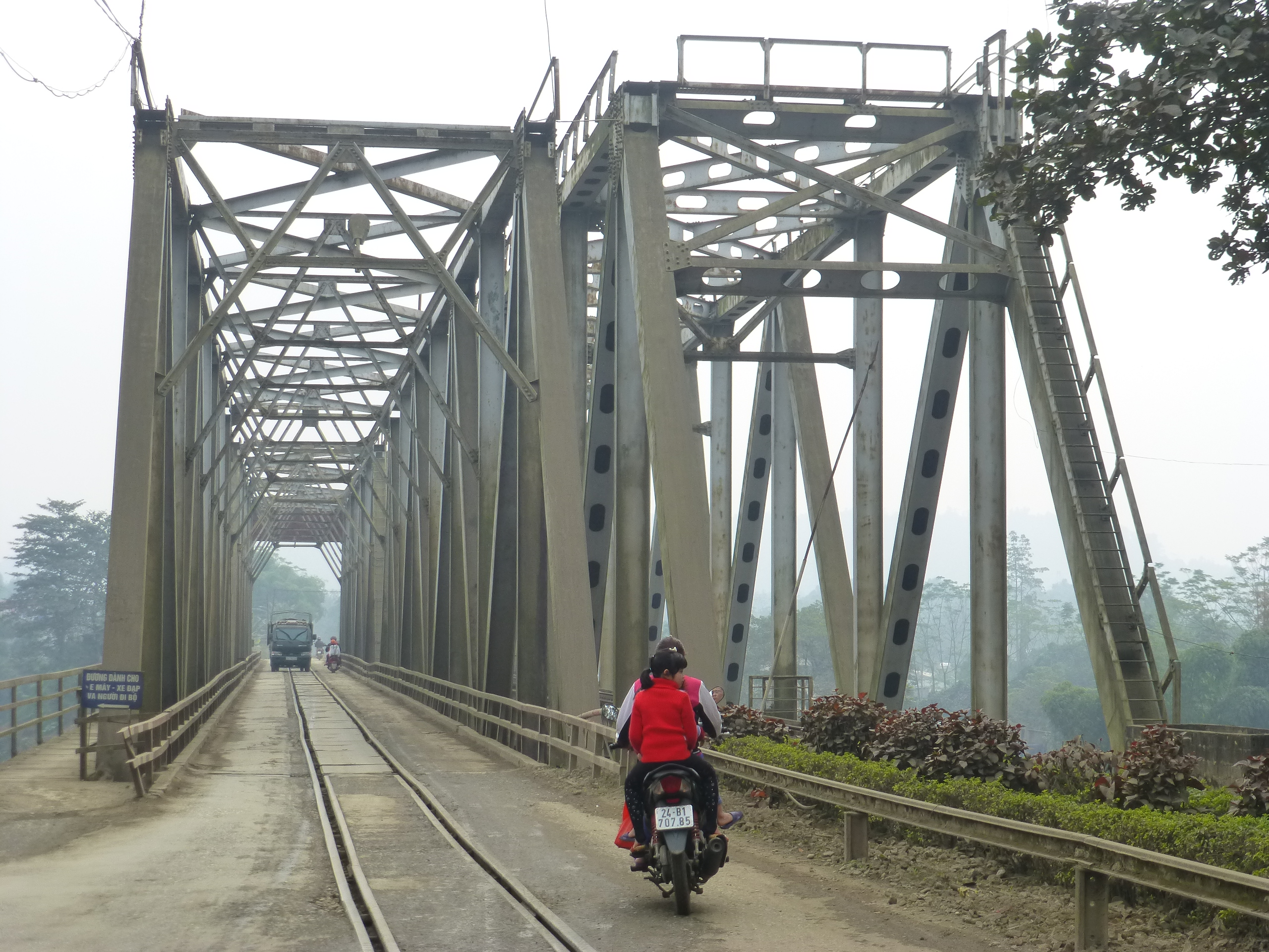 The combined road-rail bridge across the Bo River (Ngòi Bo) in Gia Phú, Bao Thang District, Lao Cai Province. The bridge carries Vietnam National Route 4E (QL4E) the railway branch Pho Lu–Xuan Giao